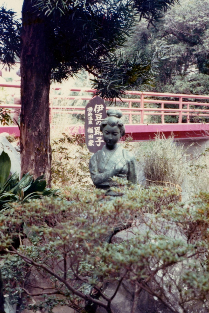 Izu no Odoriko (Kawabata) in front of the Fukuda-Ryokan at Yugano Onsen